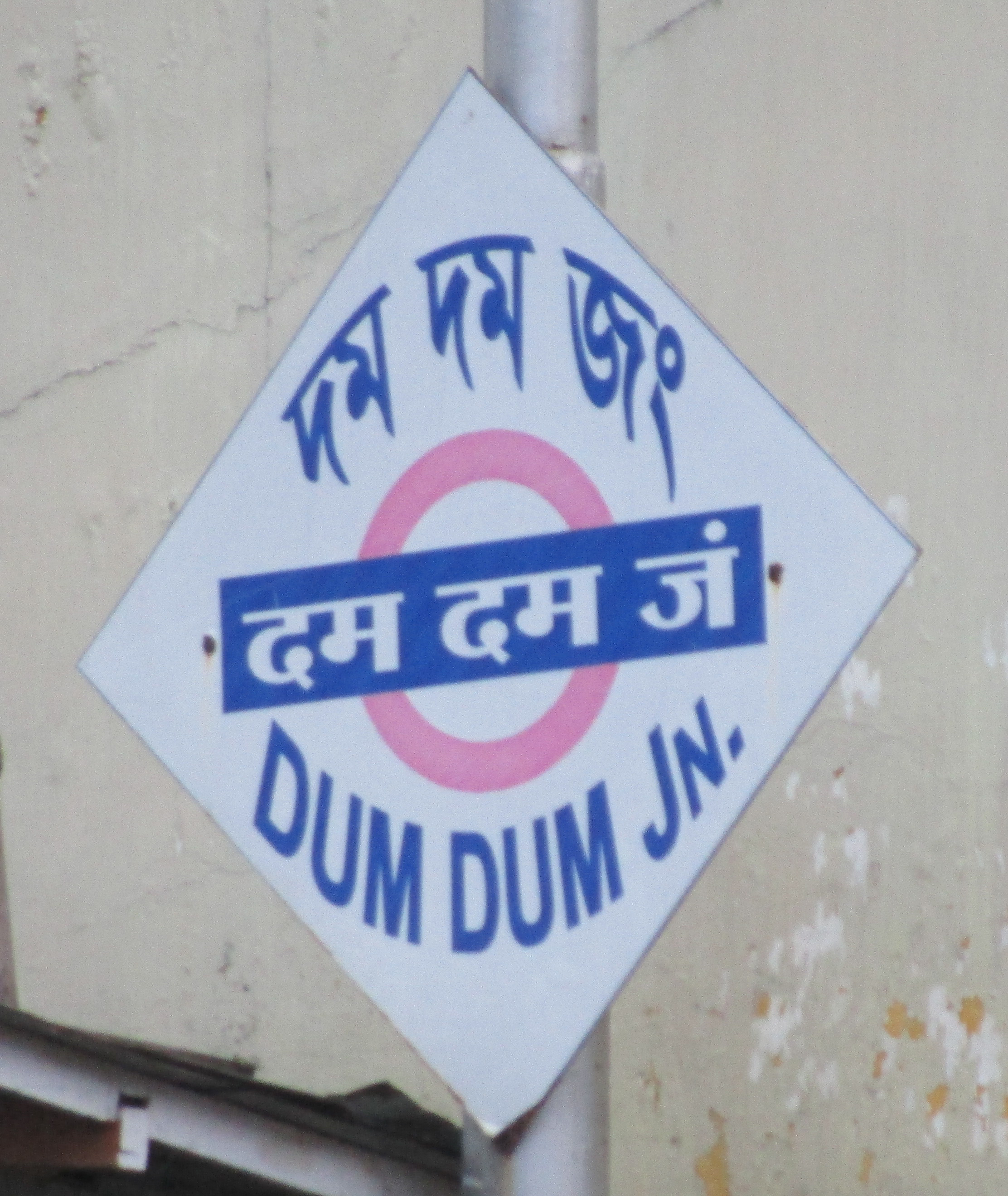 Dum Dum railway station